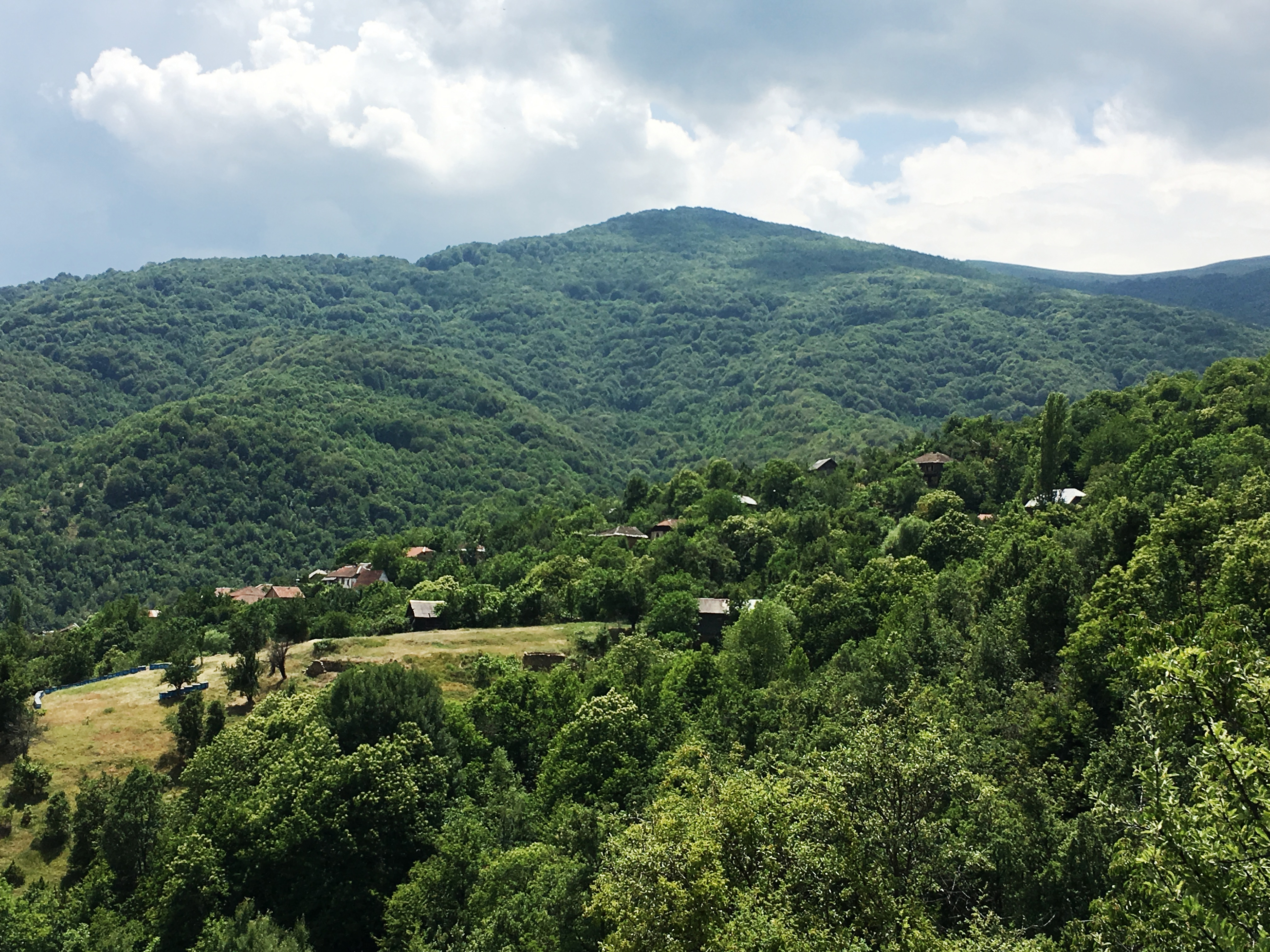 Panoramic view of the village of Lupšte